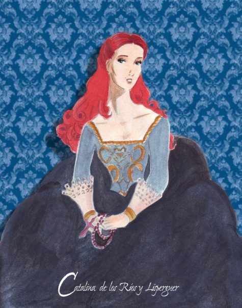 c, illustration by Jaime Abarca